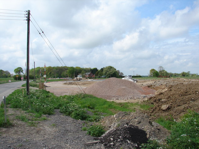 Construction work on Burgh-Le-Marsh bypass (West End) The dual carriageway beside the trees will form the starting point of the "new" by-pass.